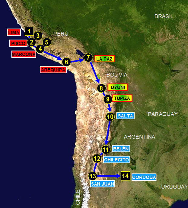 Mapa del rally Dakar 2018